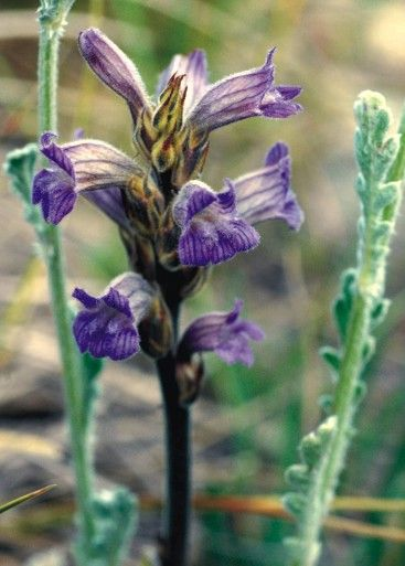 Orobanche purpurea